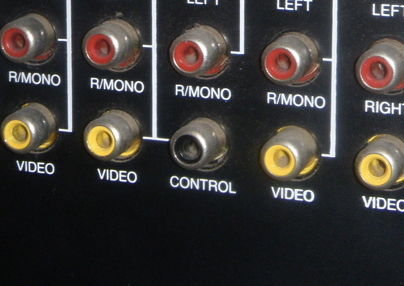 Control bus found on a 1987 RCA Dimensia TV